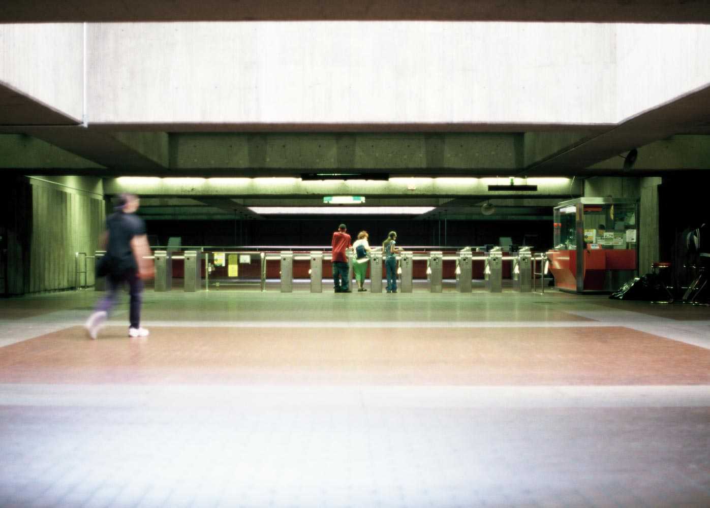 The interior of the Honoré-Beaugrand metro station in Montréal, Québec, Canada. The station is the eastern terminus of the Green Line.